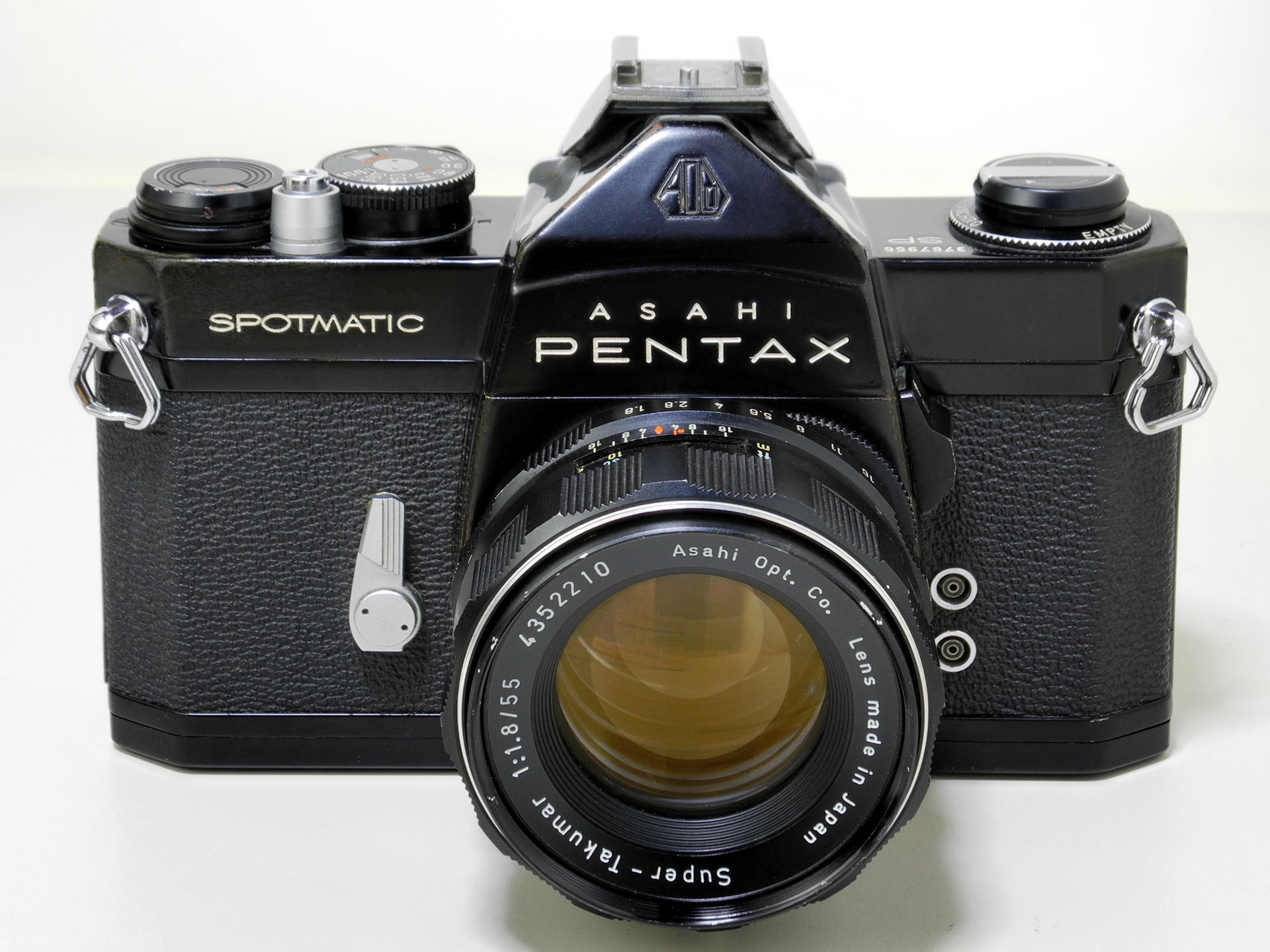 Pentax SP w/55mm f/1.8